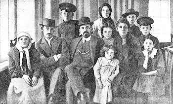 Бейлис с семьей Beilis with his family